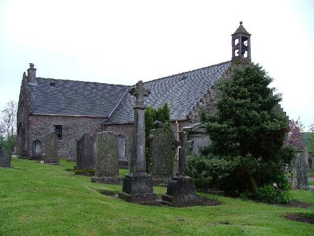 St Beans Church.